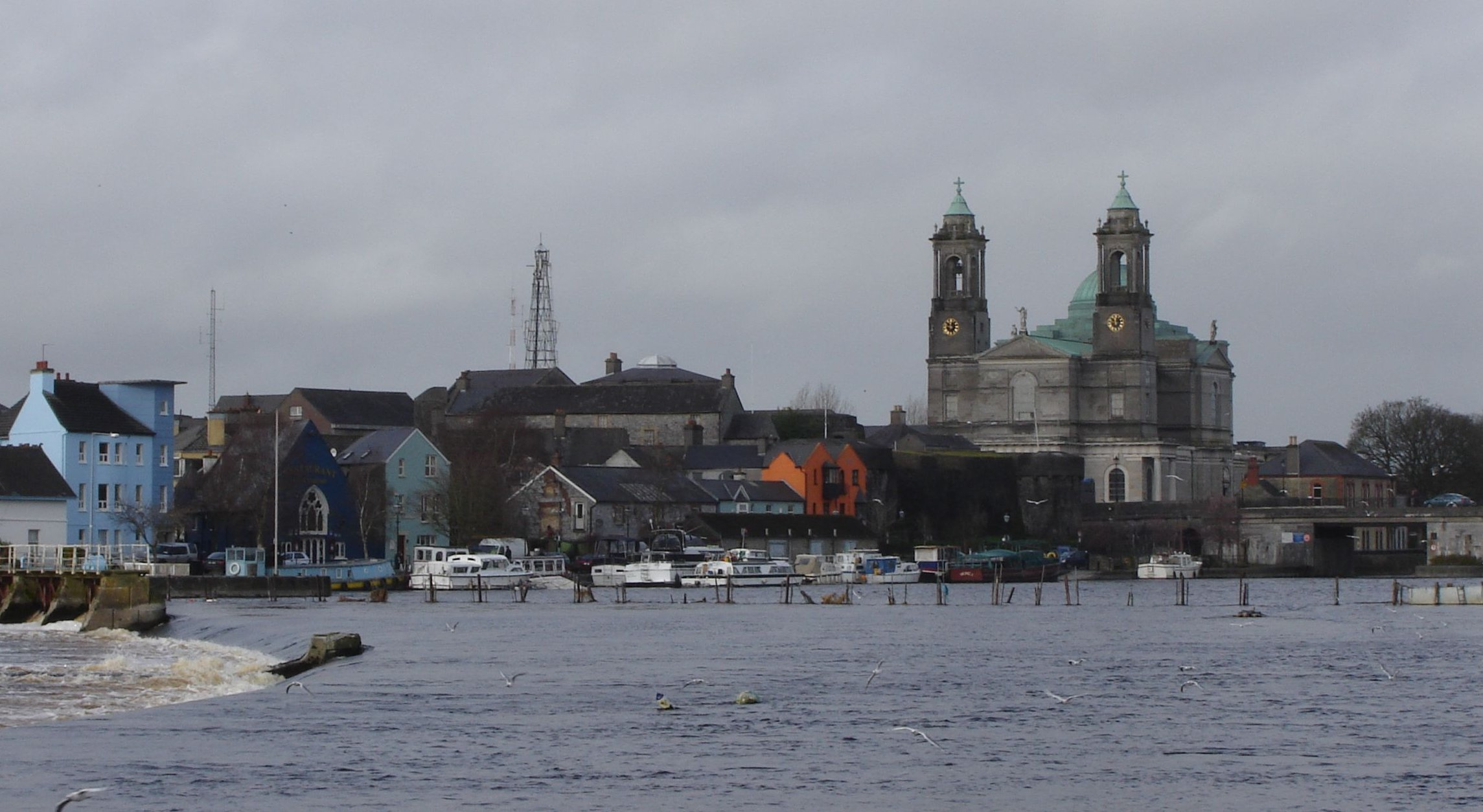 View over the river Shannon in Athlone, Ireland. On the far shore Adamson castle and St Peter and Paul's Church.